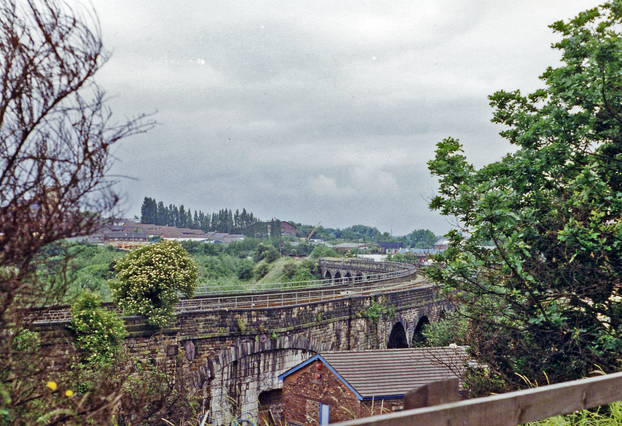 Site of Ashton (Park Parade) station, 1996. View SW over the viaduct, towards Guide Bridge: ex-GCR Guide Bridge - Stalybridge line. The station closed on 5/11/55 (goods 2/12/63), but the line seemed intact in 1996.